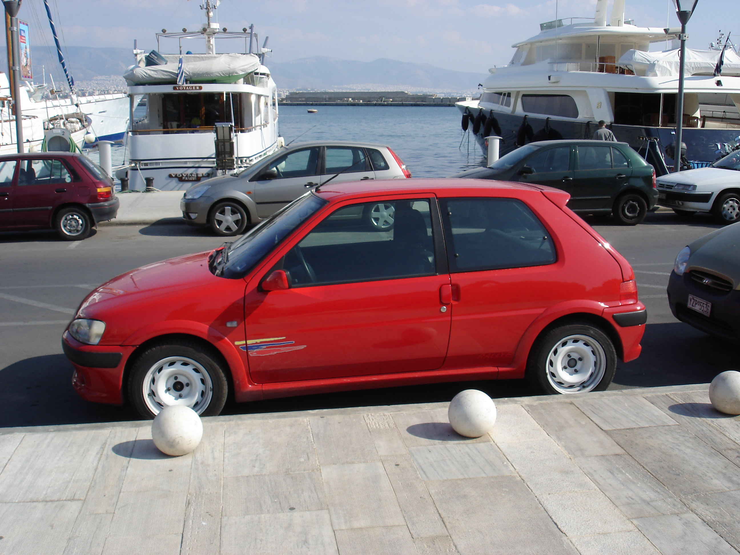 Peugeot 106 rallye Ph.II 1,600cc 16V (122hp)